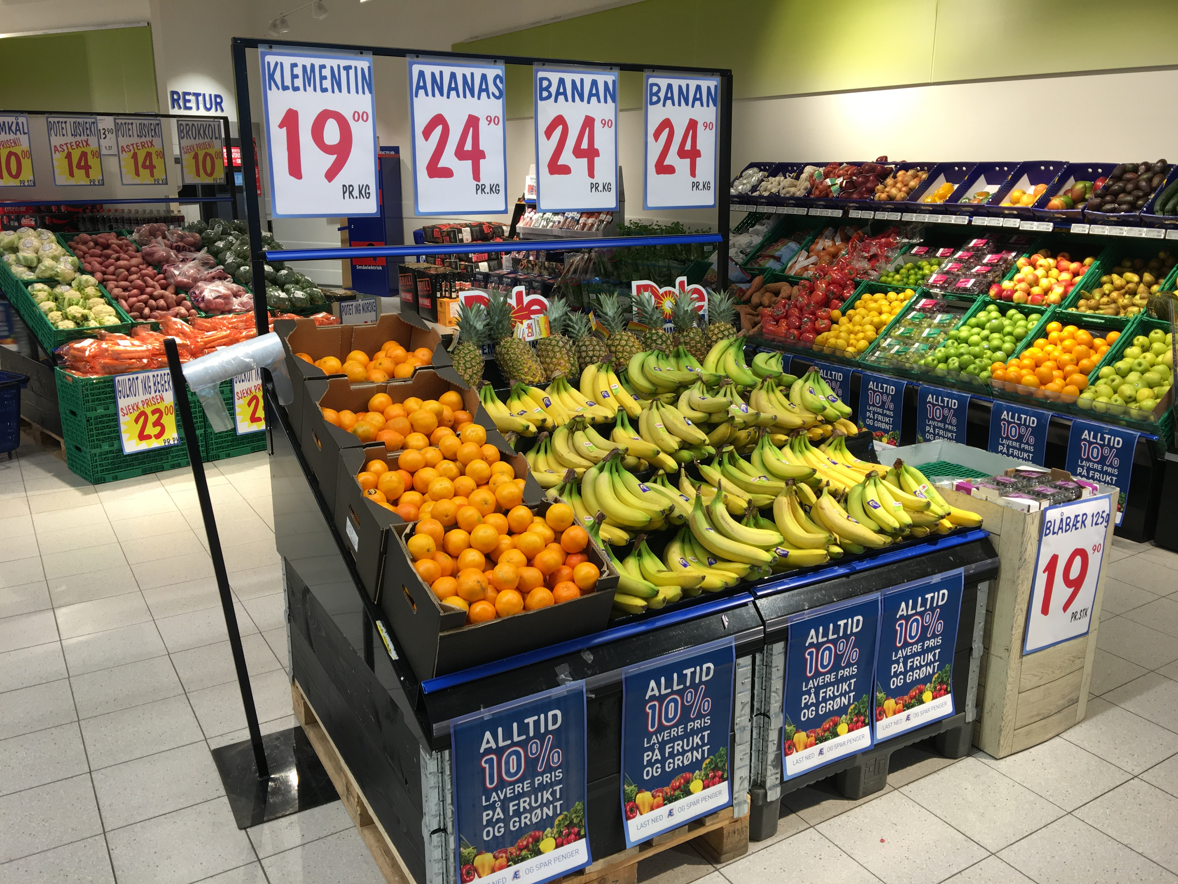 Interior of REMA 1000 supermarket/grocery store in Tønsberg, Norway. Fruit and vegetables displayed for sale.